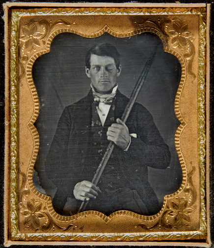 Photograph of cased-daguerreotype studio portrait of brain-injury survivor Phineas P. Gage (1823–1860) shown holding the tamping iron which injured him. Includes view of original embossed brass mat. Color, unretouched. From the collection of Jack and Beverly Wilgus. Like most daguerreotypes, the image seen in this artifact is laterally (left-right) reversed; therefore a second, compensating reversal has been applied to produce this image, so as to show Gage as he appeared in life. That this shows Gage correctly is confirmed by contemporaneous medical reports describing his injuries, as well as from the injuries visible in Gage's skull and life mask, still preserved.